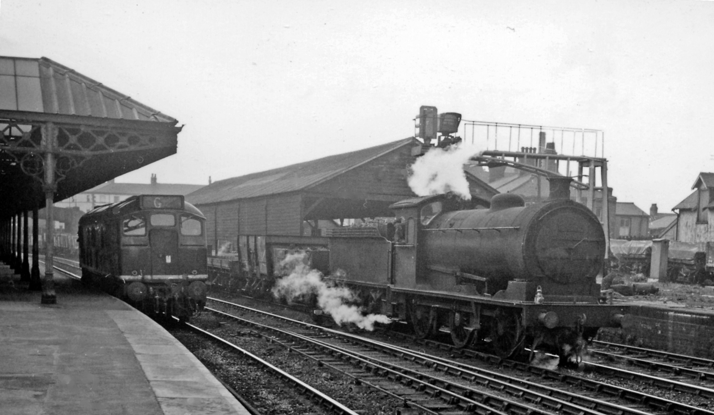 Thornaby Station, with Down freight and a Diesel light-engine. View westward, towards Stockton etc., Eaglescliffe, Northallerton and Darlington. It was an immensely busy station on the western outlet of the great Newport Marshalling Yard and the indusries of Middlesbrough. The Class J freight is headed by ex-NE J27 0-6-0 No. 65868; the Diesel - seeming then an 'interloper' - is BR/Sulzer Type 2 No. D5149.